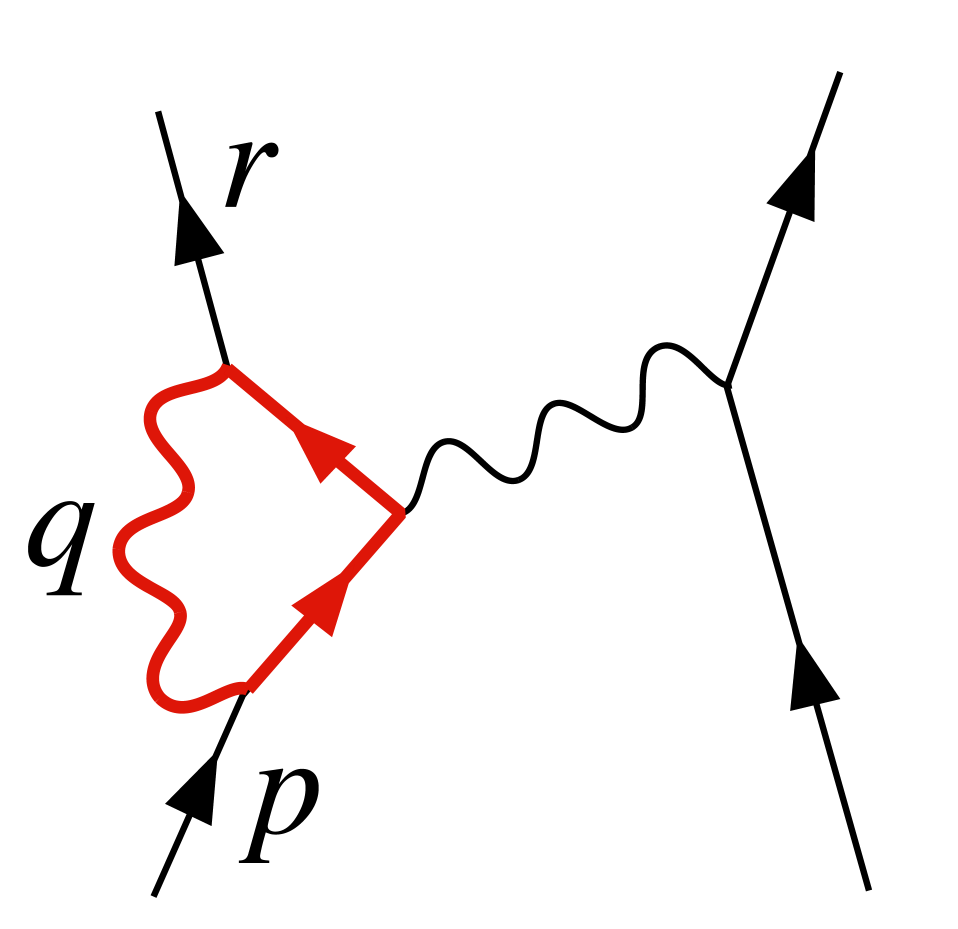 A loop diagram contributing to electron-electron scattering in QED. Drawn by Matt McIrvin.